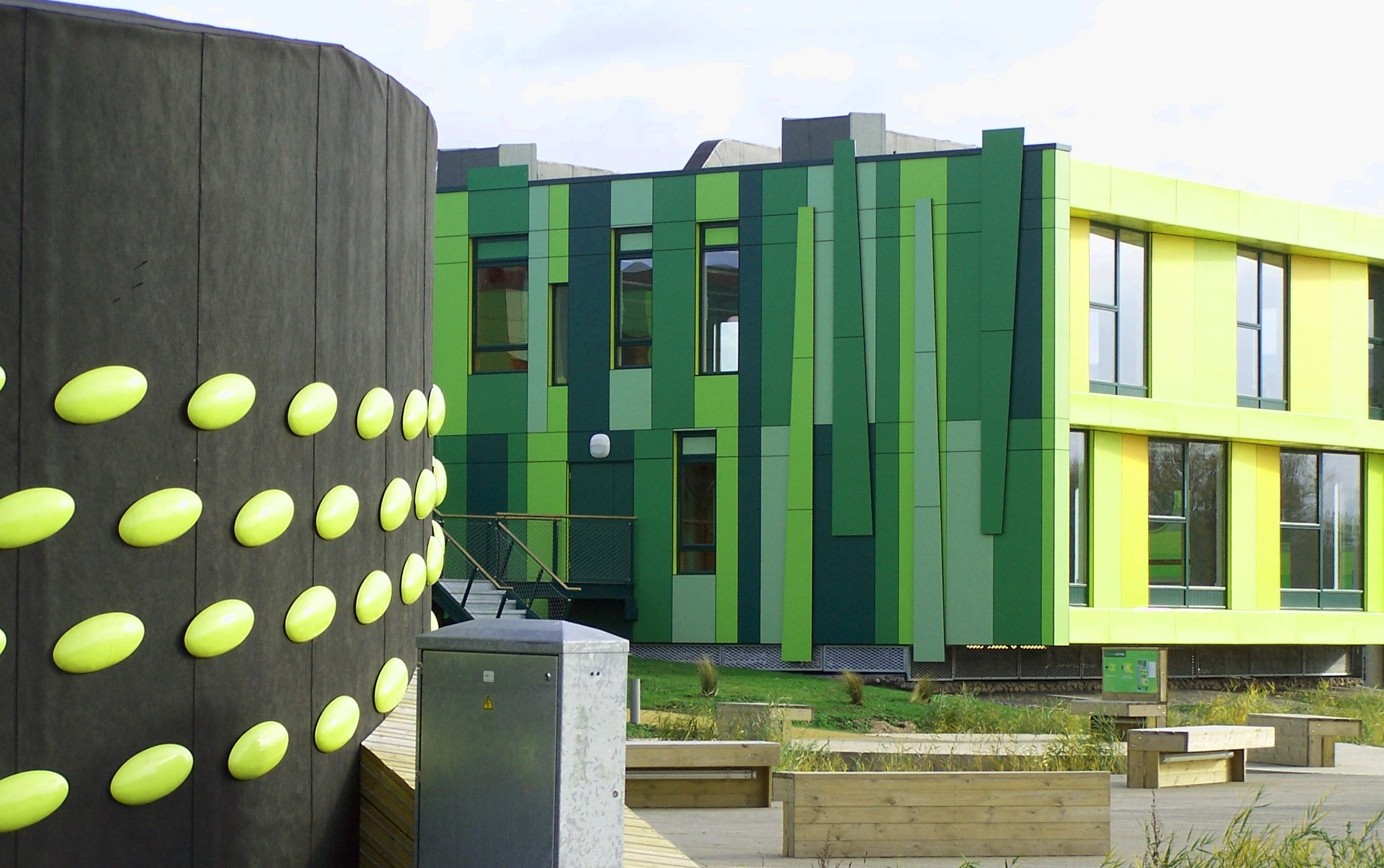 Nottingham Science Park. University Boulevard.